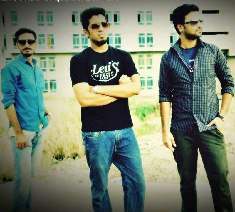 The band Furqan and Imran. On the left Anas Imtiaz, in the middle Furqan Tunio and on the right Imran Butt.